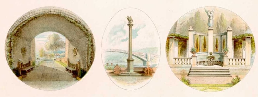 Picture from Image:Rheinanlage 04.jpg